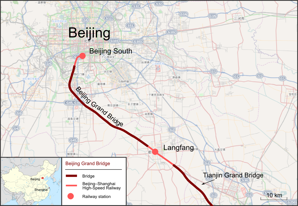 General map of Beijing Grand Bridge